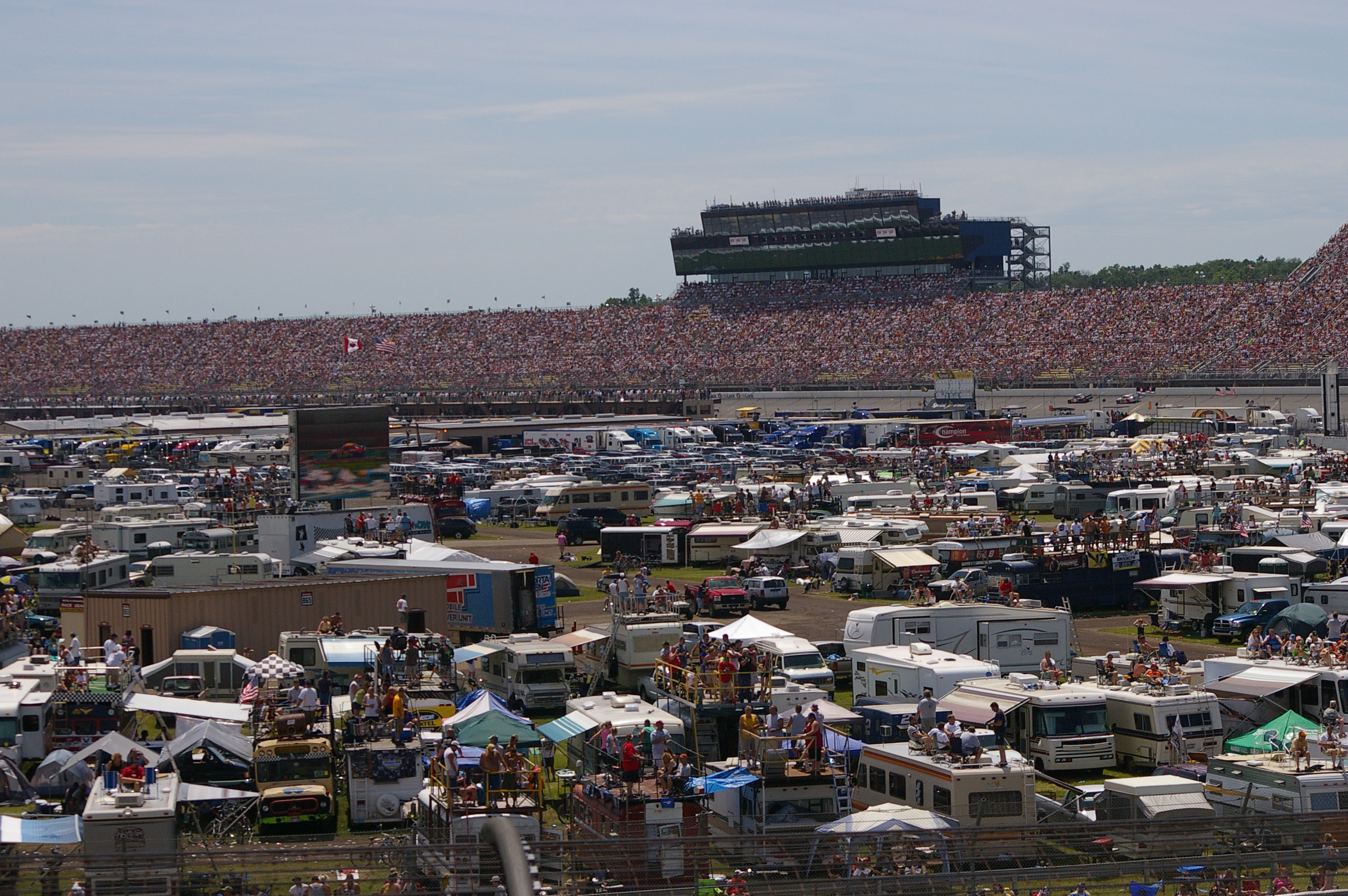 The view from turn 3 grandstand.